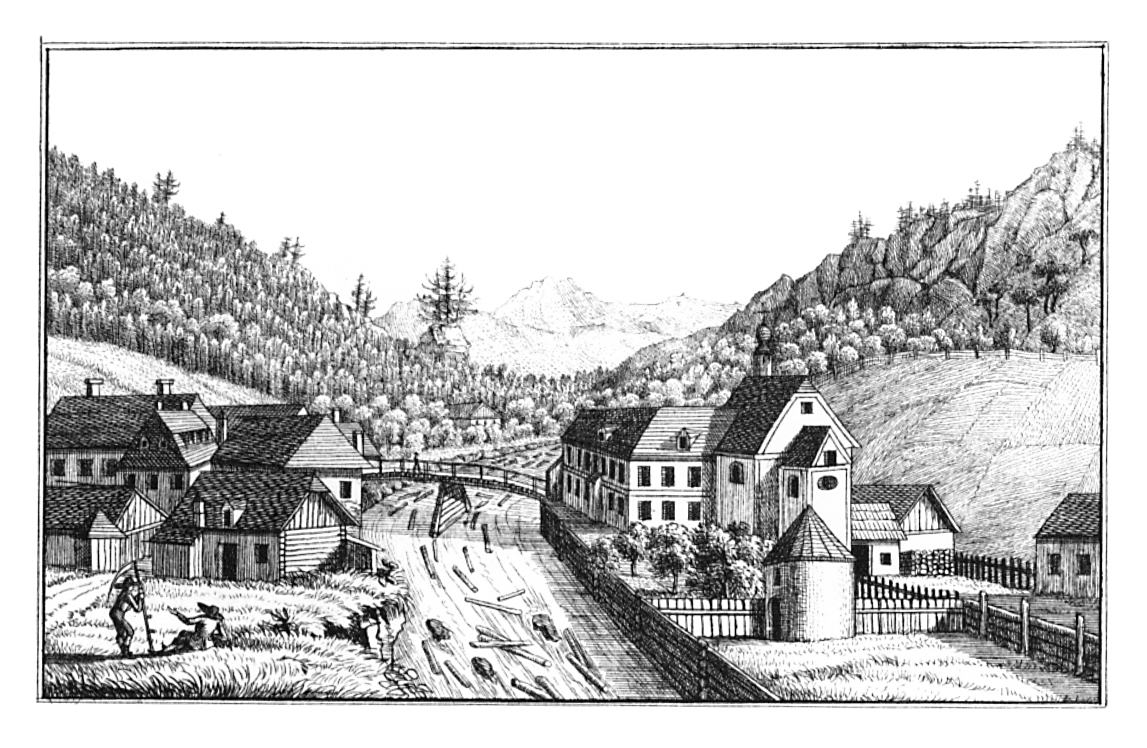 J. F. Kaiser - lithographirte Ansichten der Steyermärkischen Städte, Märkte und Schlösser, Graz 1824-1833 Joseph Franz Kaiser (1786–1859) Alternative names J. F. KaiserDescriptionAustrian printer and editorDate of birth/death 11 March 1786 19 September 1859Location of birth/death Graz (Styria) GrazAuthority control : Q1499963 VIAF: 30629353 ISNI: 0000 0000 3083 0153 LCCN: n87141671 GND: 129880159 NLP: A24960305 WorldCat creator QS:P170,Q1499963 . Scanprojekt Community Projektbudget 2012 This scan or this PDF-file was created within the GLAM-project Bookscanning, supported by Wikimedia Germany and Wikimedia Austria as a part of the community-project to capture books, documents and pictures which are not eligible to copyright or for which the copyright has expired. This document describes or depicts an object which is located in Austria today. Send requests for uncompressed scans to Hubertl. This work is in the public domain in its country of origin and other countries and areas where the copyright term is the author's life plus 100 years or less. You must also include a United States public domain tag to indicate why this work is in the public domain in the United States. This file has been identified as being free of known restrictions under copyright law, including all related and neighboring rights.